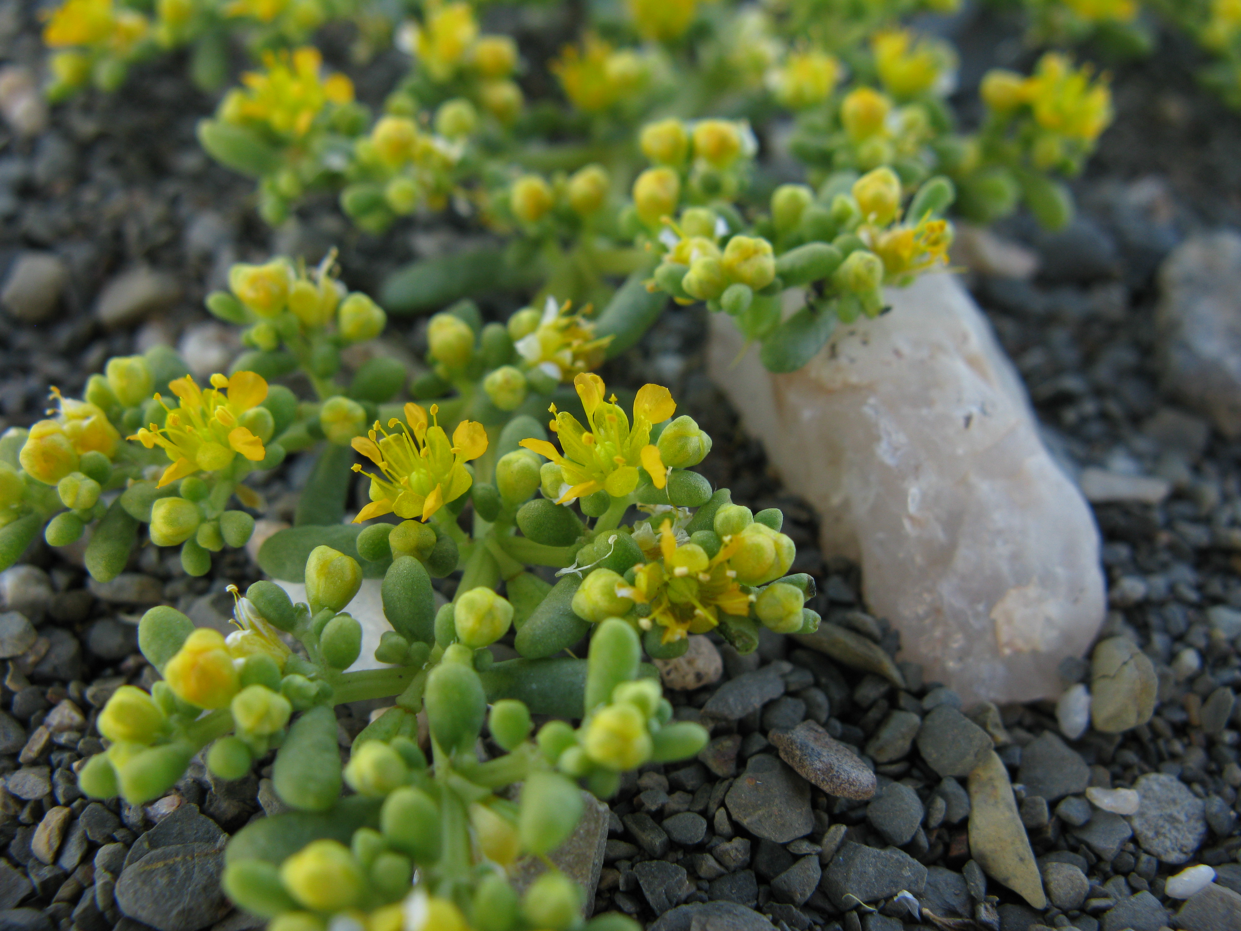 Zygophyllum simplex L. has been renamed Tetraena simplex (L.) Beier & Thulin, but this may be temporary, in the light of DNA studies that suggest it really does belong in the genus Zygophyllum